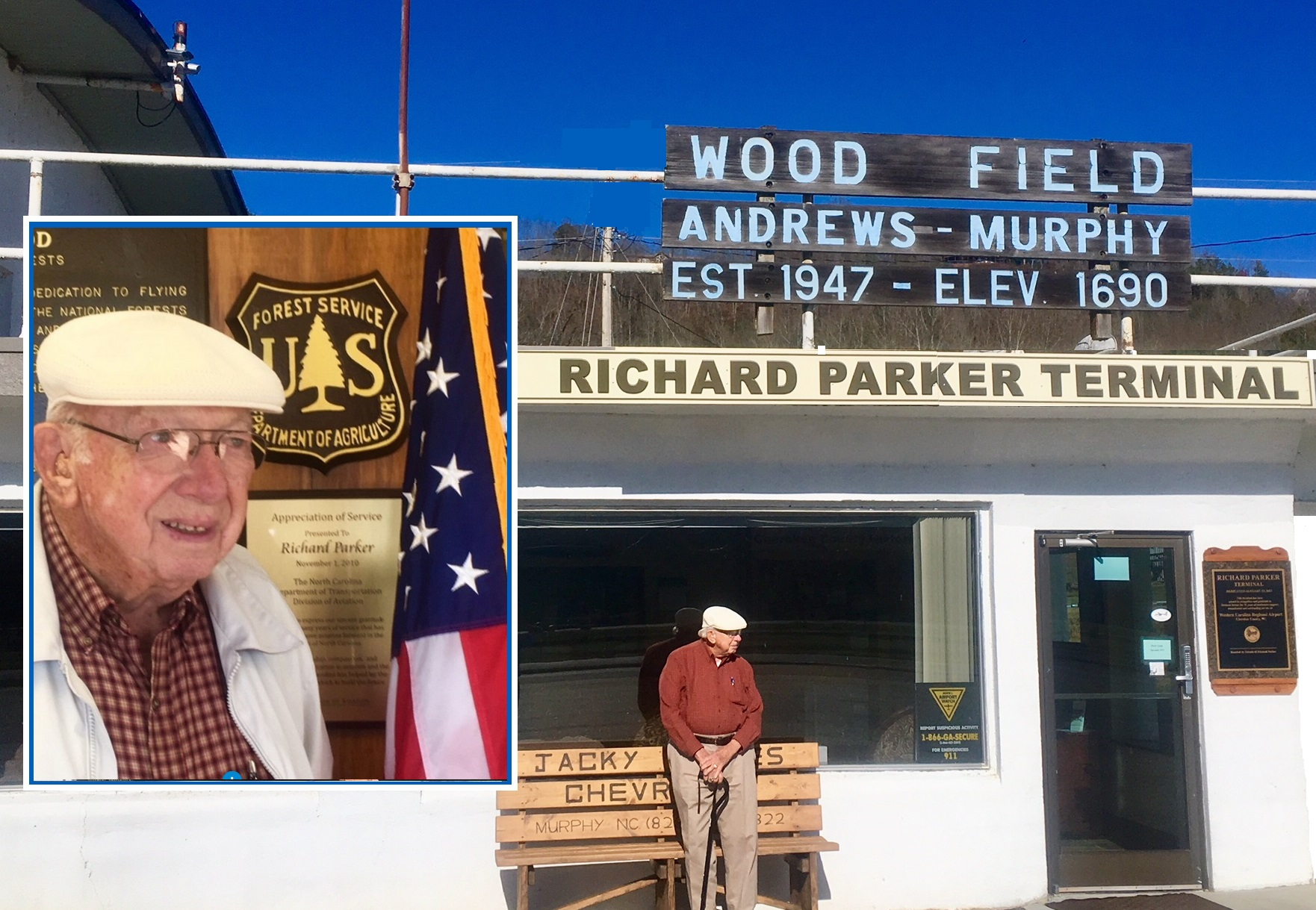 Legendary Aviator Richard Parker in front of the Airport Terminal